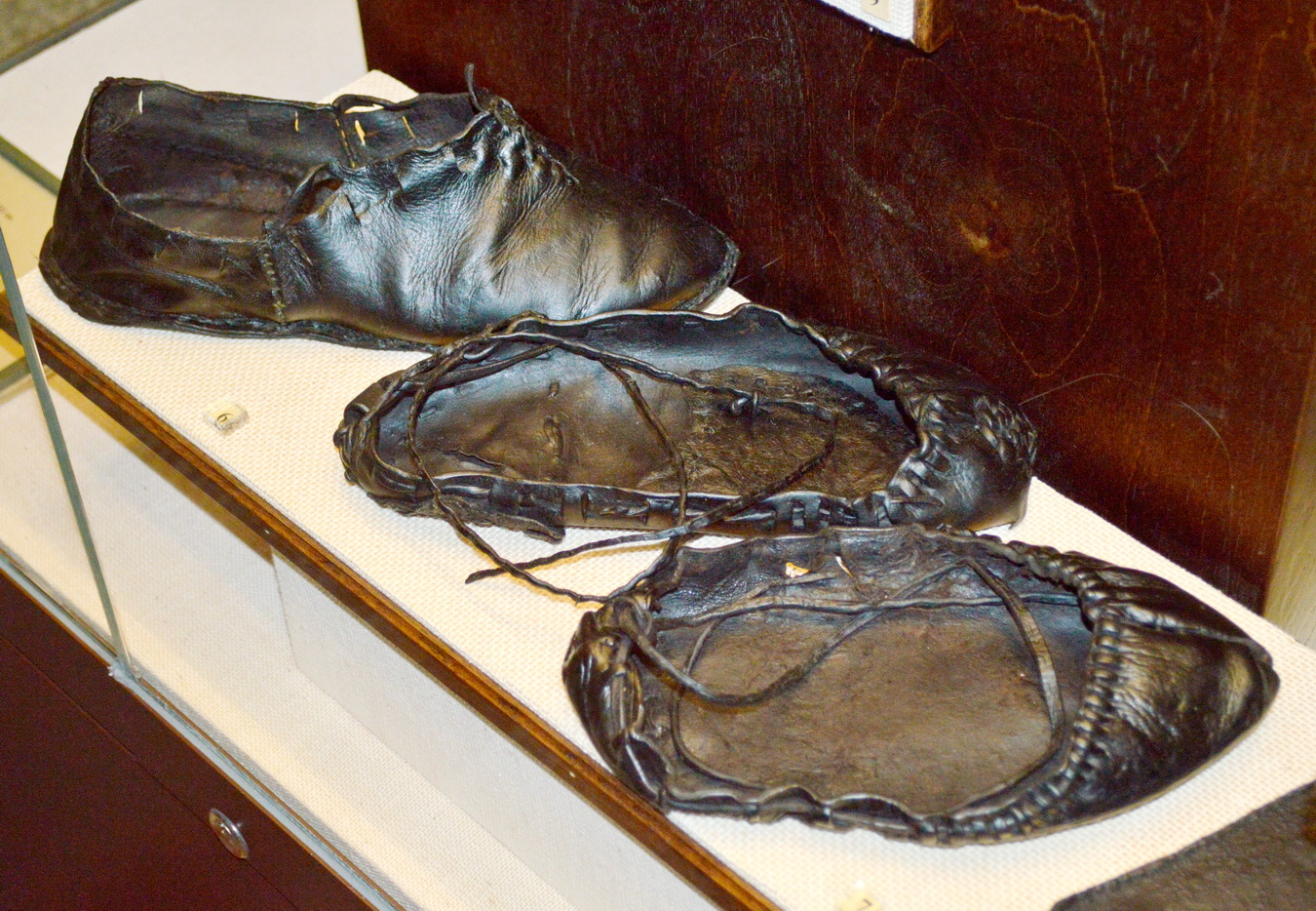 Shoes, Novgorod, 12-13 c.